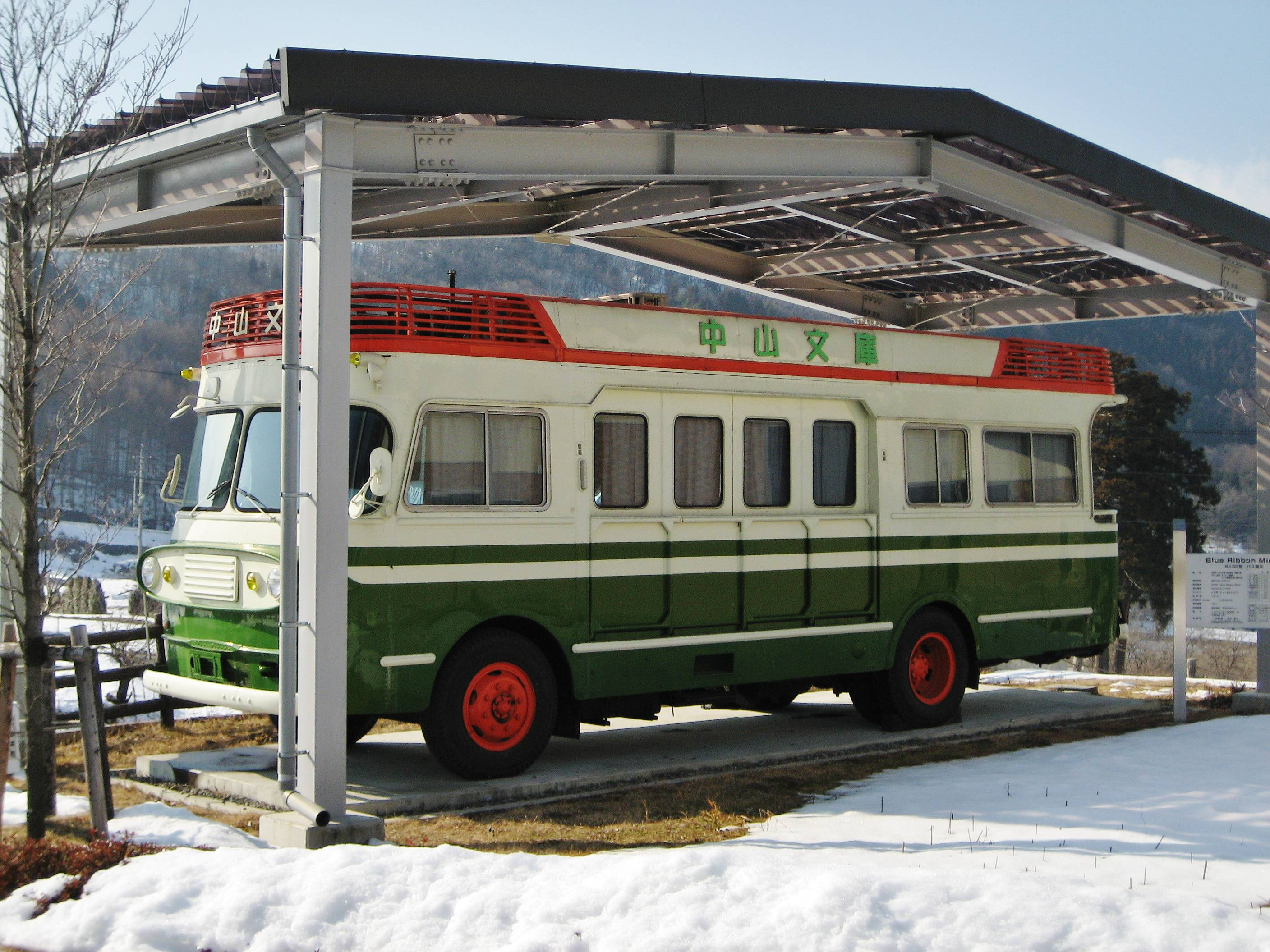 Matsumoto City Library Nakayama Bunko bookmobile (1958 Hino BK32 Blue Ribbon Minor).